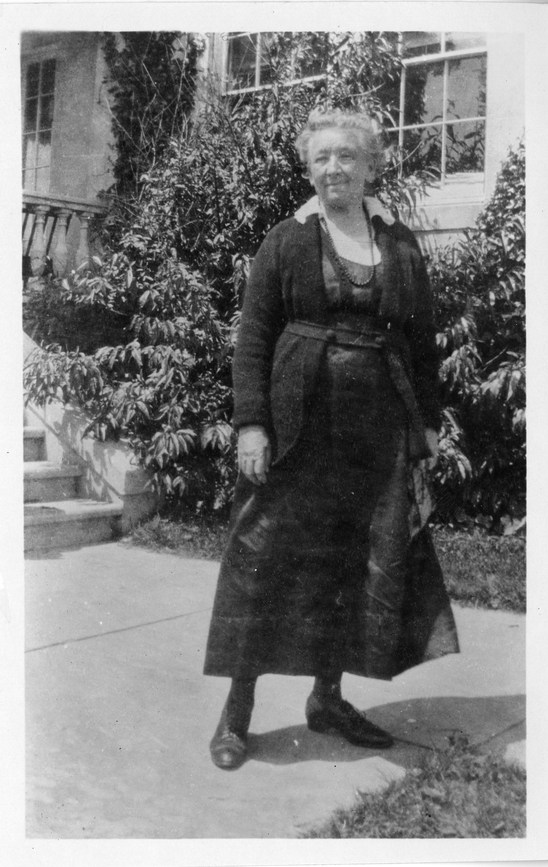 Subject: Clapp, Cornelia M (Cornelia Maria) 1849-1935 Marine Biological Laboratory (Woods Hole, Mass.) University of Chicago Mount Holyoke College Syracuse University Type: Black-and-white photographs Topic: Women scientists Ichthyology Biology Local number: SIA Acc. 90-105 [SIA2008-0112] Summary: Clapp was a noted biology professor at Mount Holyoke College. She earned both the first (Syracuse, 1889) and second (Chicago, 1896) biology doctorates awarded to women in the United States. She began research at Woods Hole Marine Biological Laboratory from the time of its establishment in 1888; and later served as lecturer and librarian, and was elected a trustee in 1910 Cite as: Acc. 90-105 - Science Service, Records, 1920s-1970s, Smithsonian Institution Archives